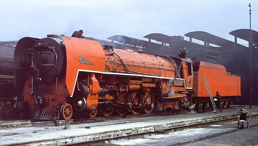 SAR class 26 at Beaconsfield Loco Depot, Kimberley, South Africa. Number of the locomotive shown is 26 3450